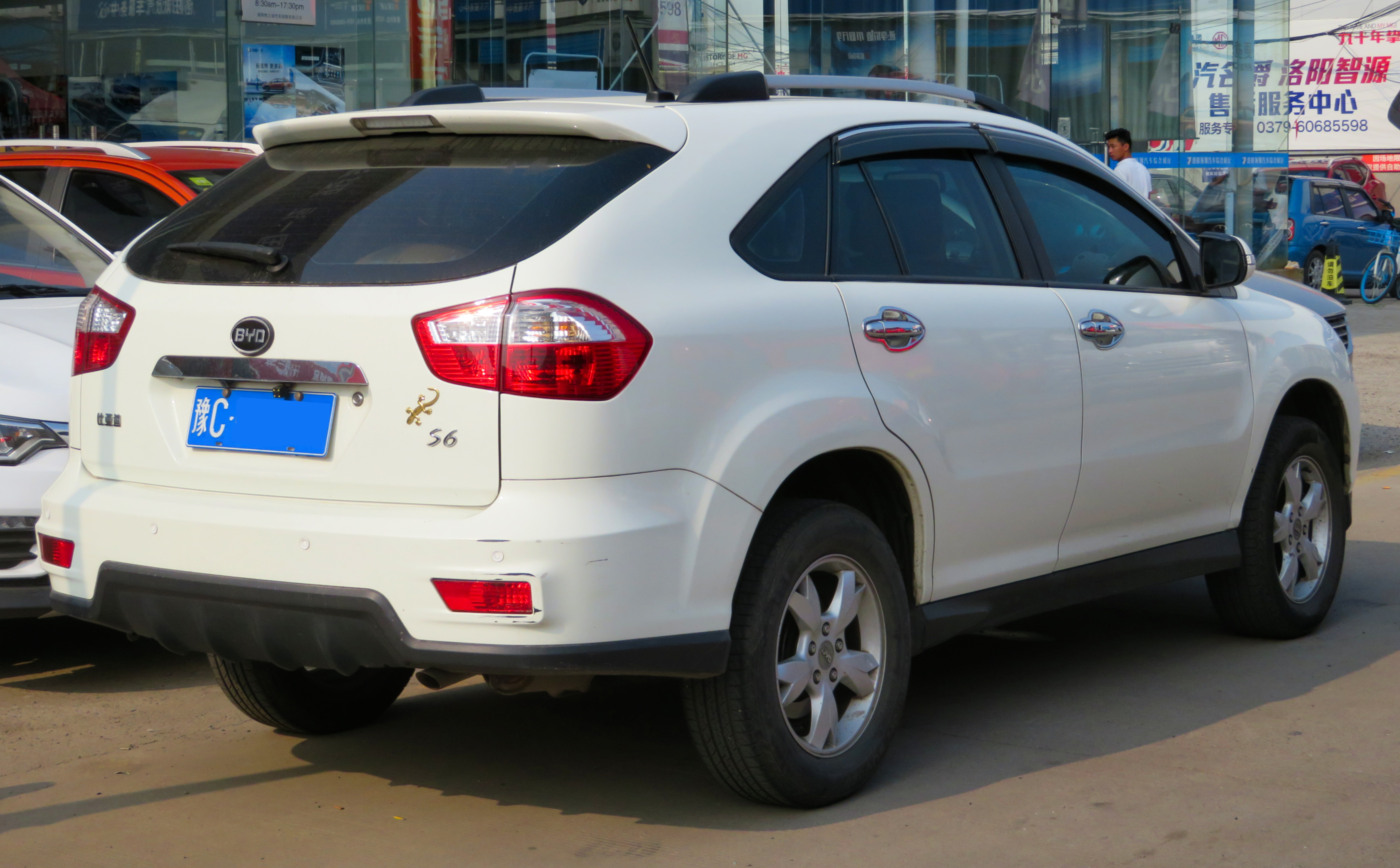 A 2014 BYD S6 photographed at Guanlinzhen, Luoyang, Henan province, China